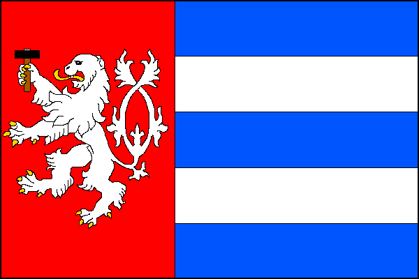 Municipal flag of Bečov nad Teplou town, Karlovy Vary District, Czech Republic.